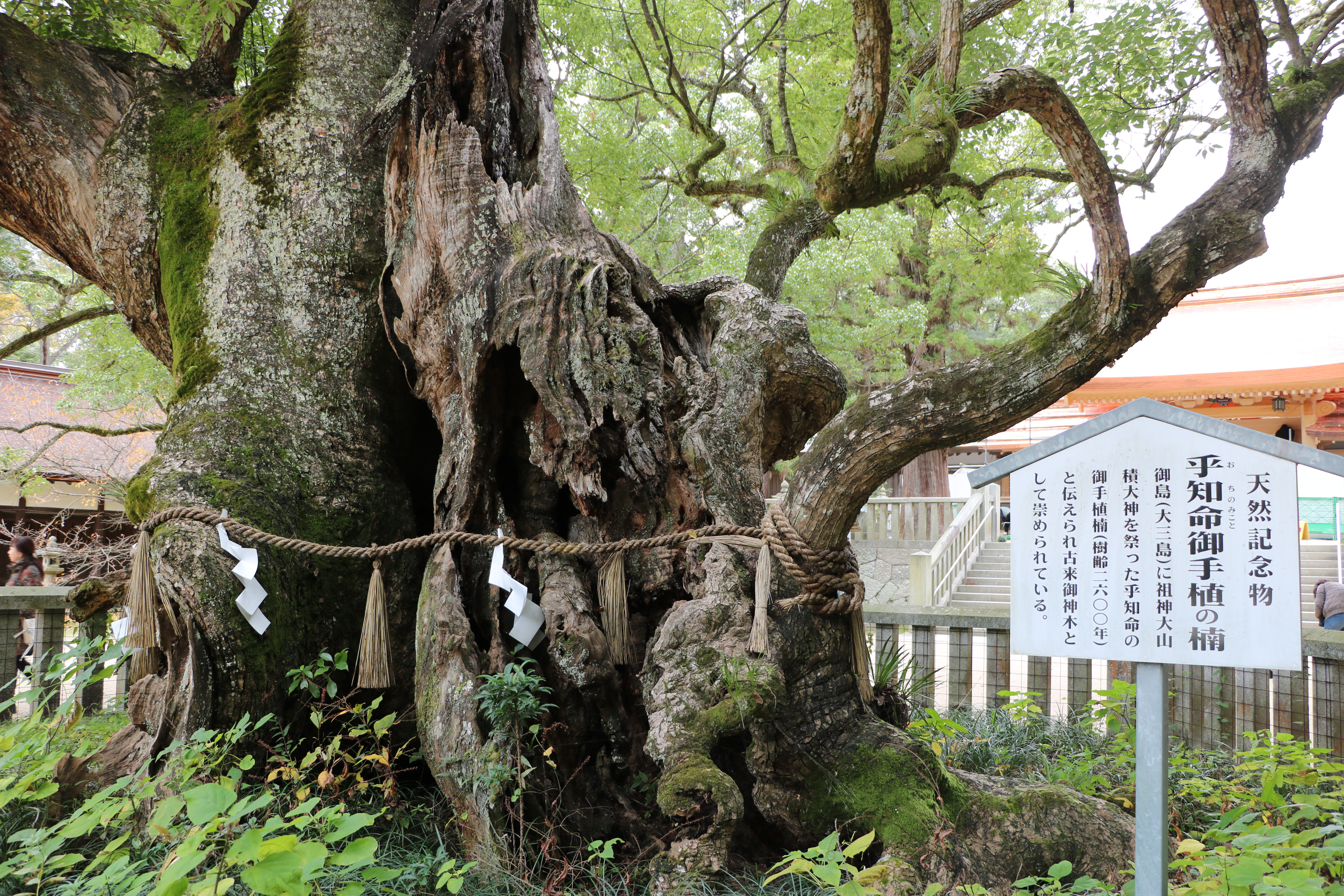 Oyamazumi shrine Ochinomikoto-oteueno-kusunoki.